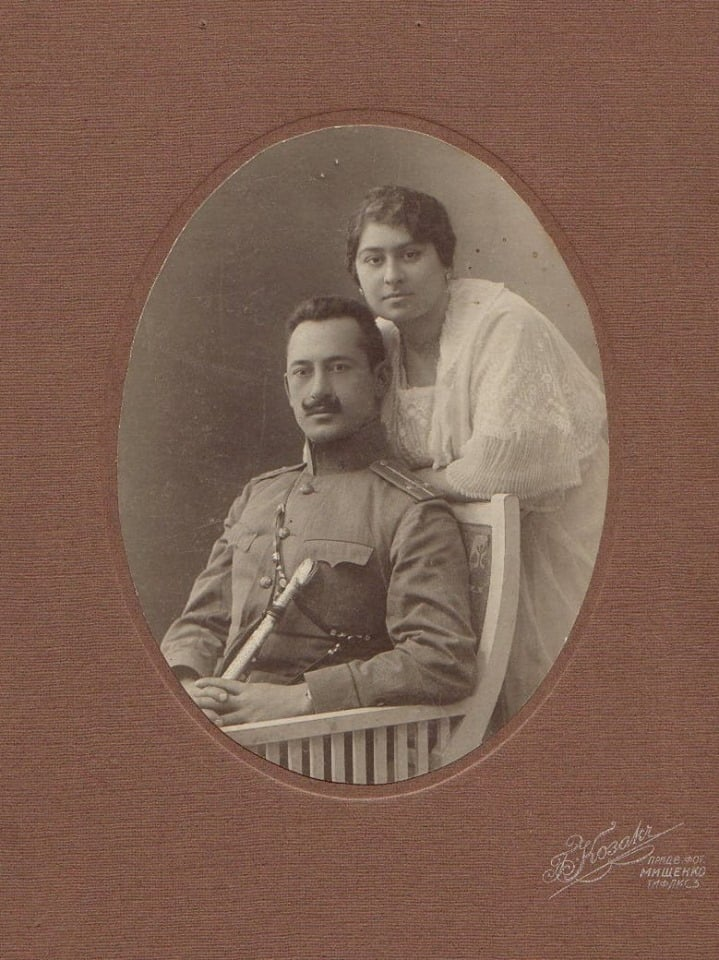 Geysar Seyfulla qizi Kashiyeva was an Azerbaijani painter. (1982-1922) She is considered the first professional female painter in Azerbaijani history.